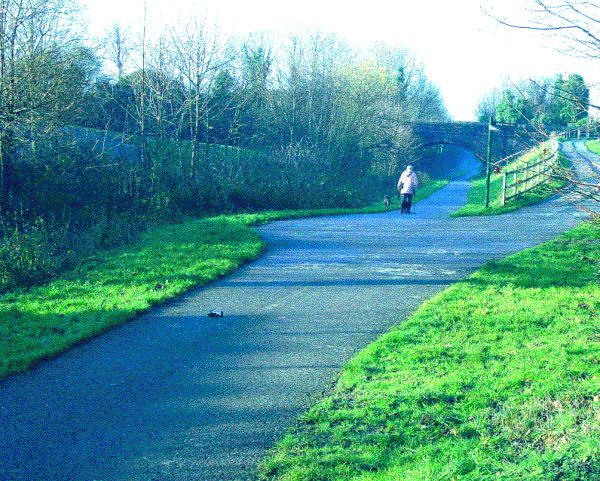 Blacon Railway Station, as it now looks.